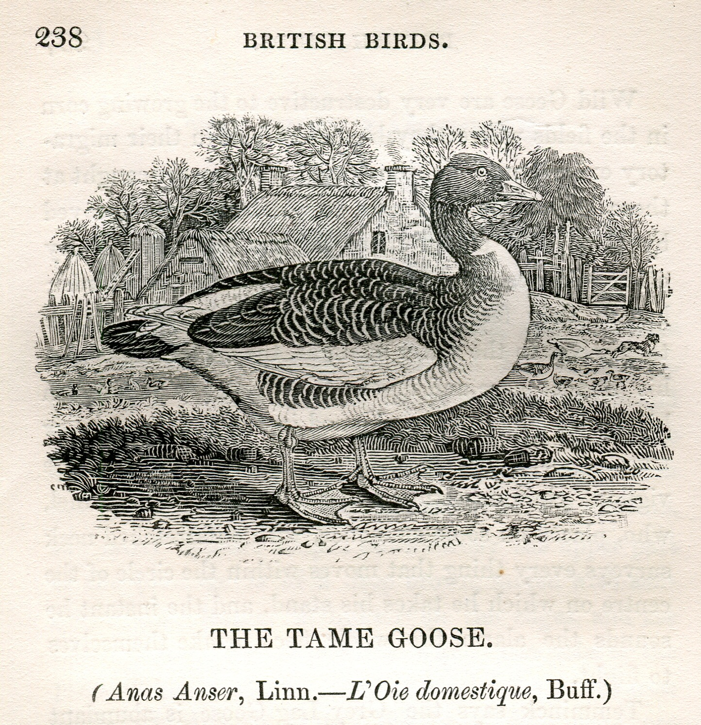 Wood engraving "The Tame Goose, Anas anser" by Thomas Bewick, A History of British Birds, Volume II, Water Birds, 1804.